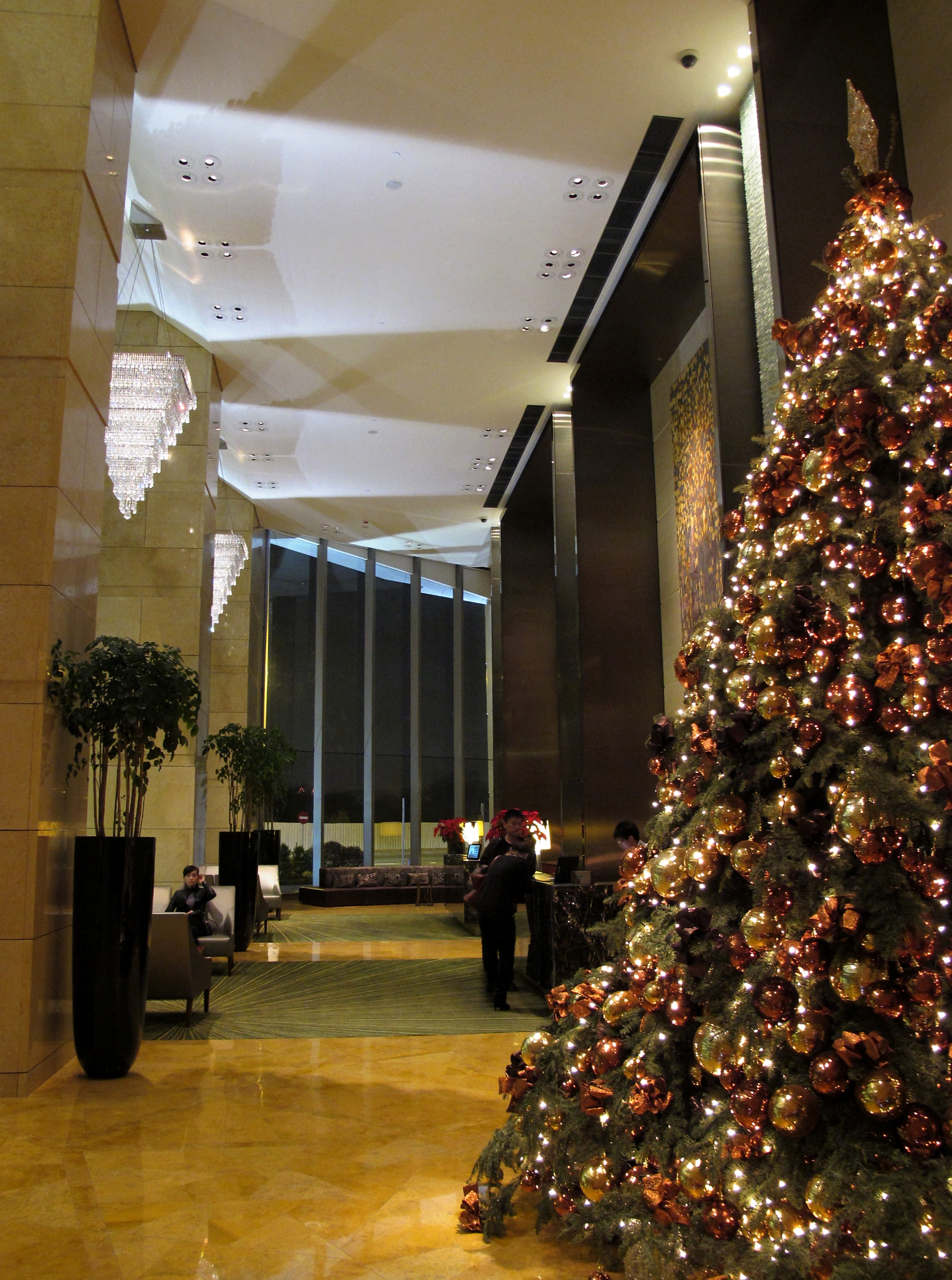 Mandarin Oriental Macau Lobby